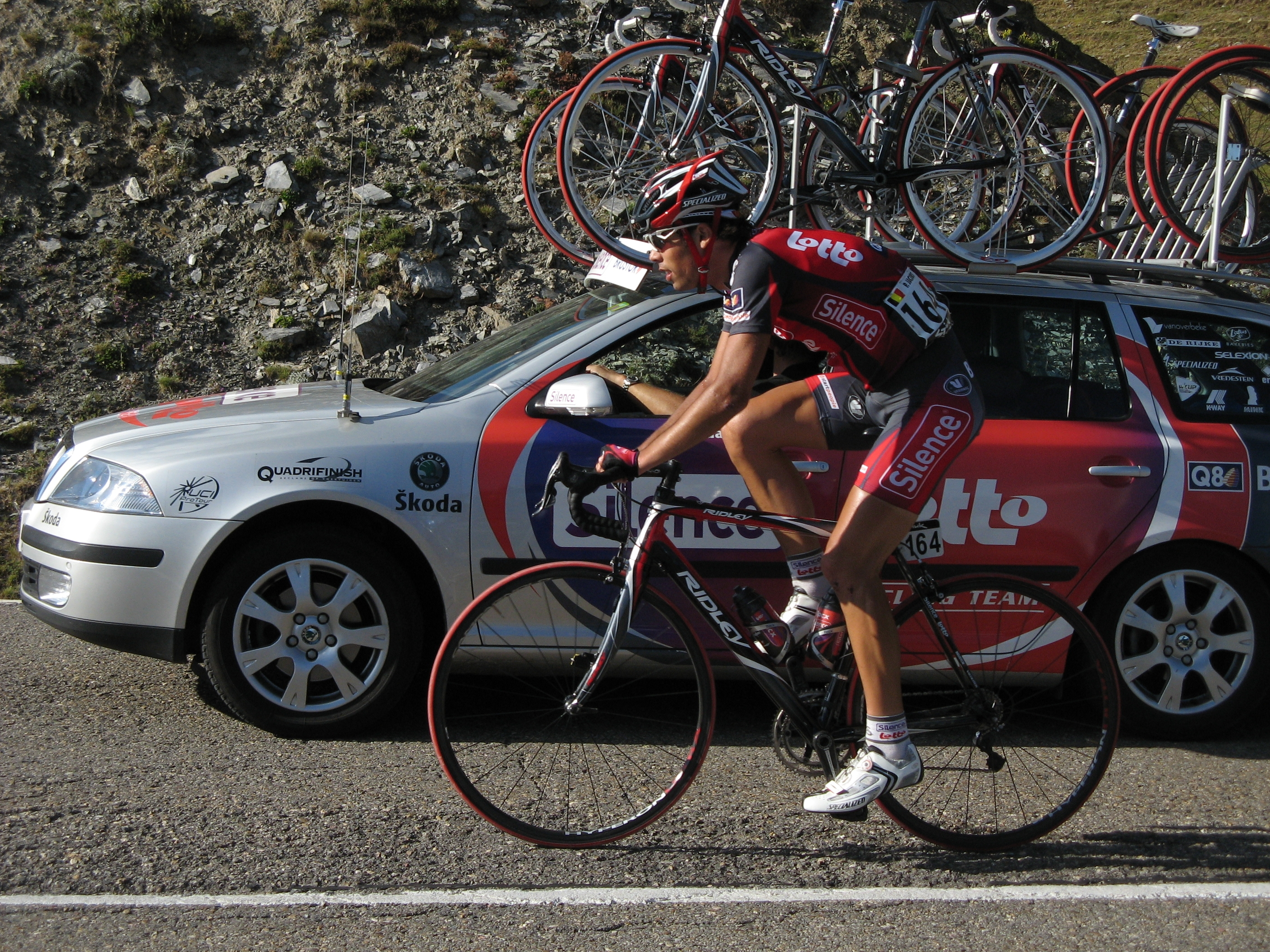 Pieter Jacobs, 2008 Vuelta a España, 8th stage, Port de la Bonaigua, Spain.